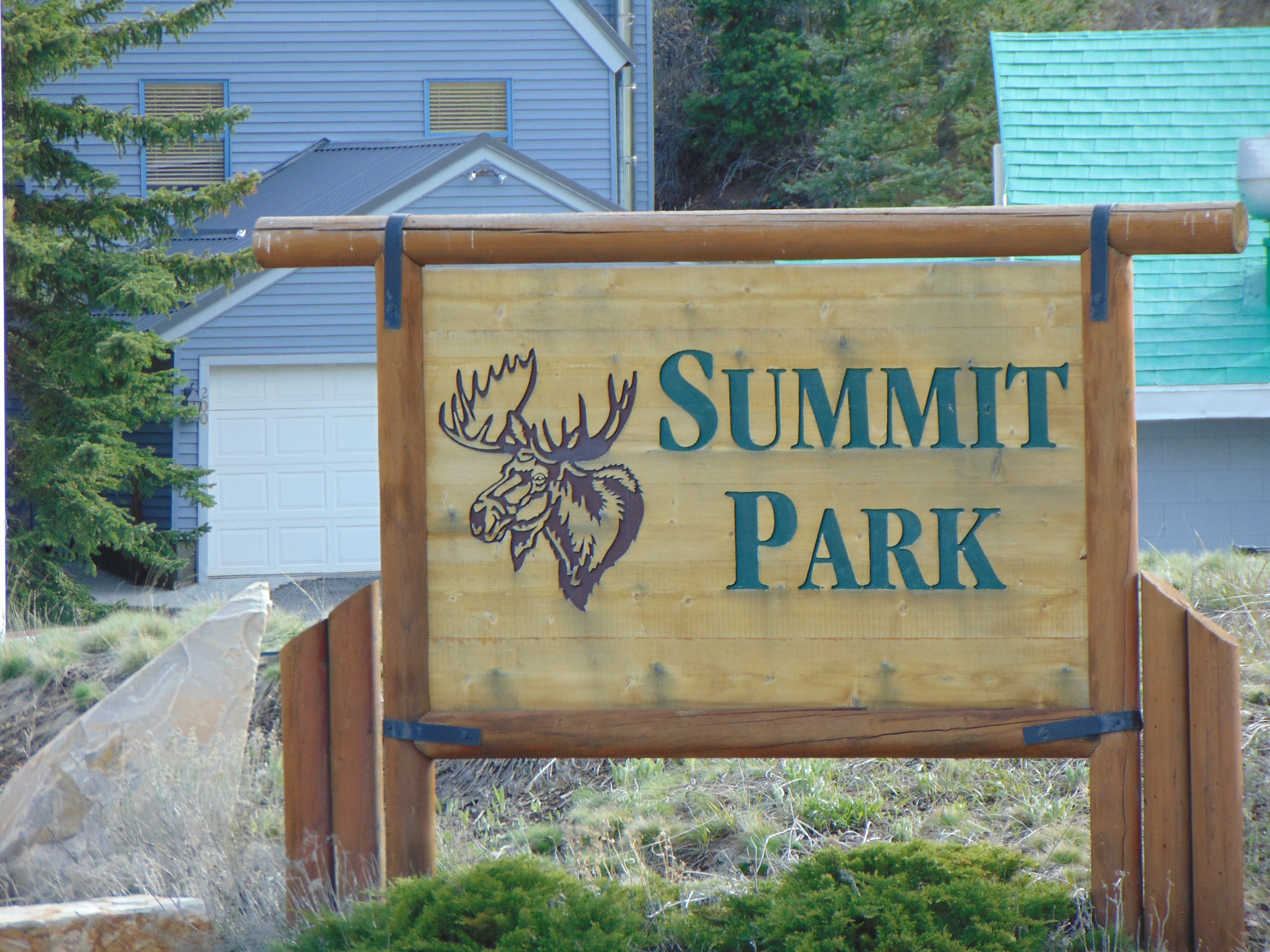 A Summit Park sign on Aspen Driver in Summit Park, Utah, April 2016